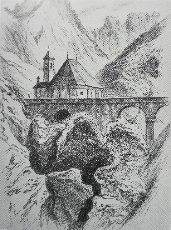 The Dolomite Mountains